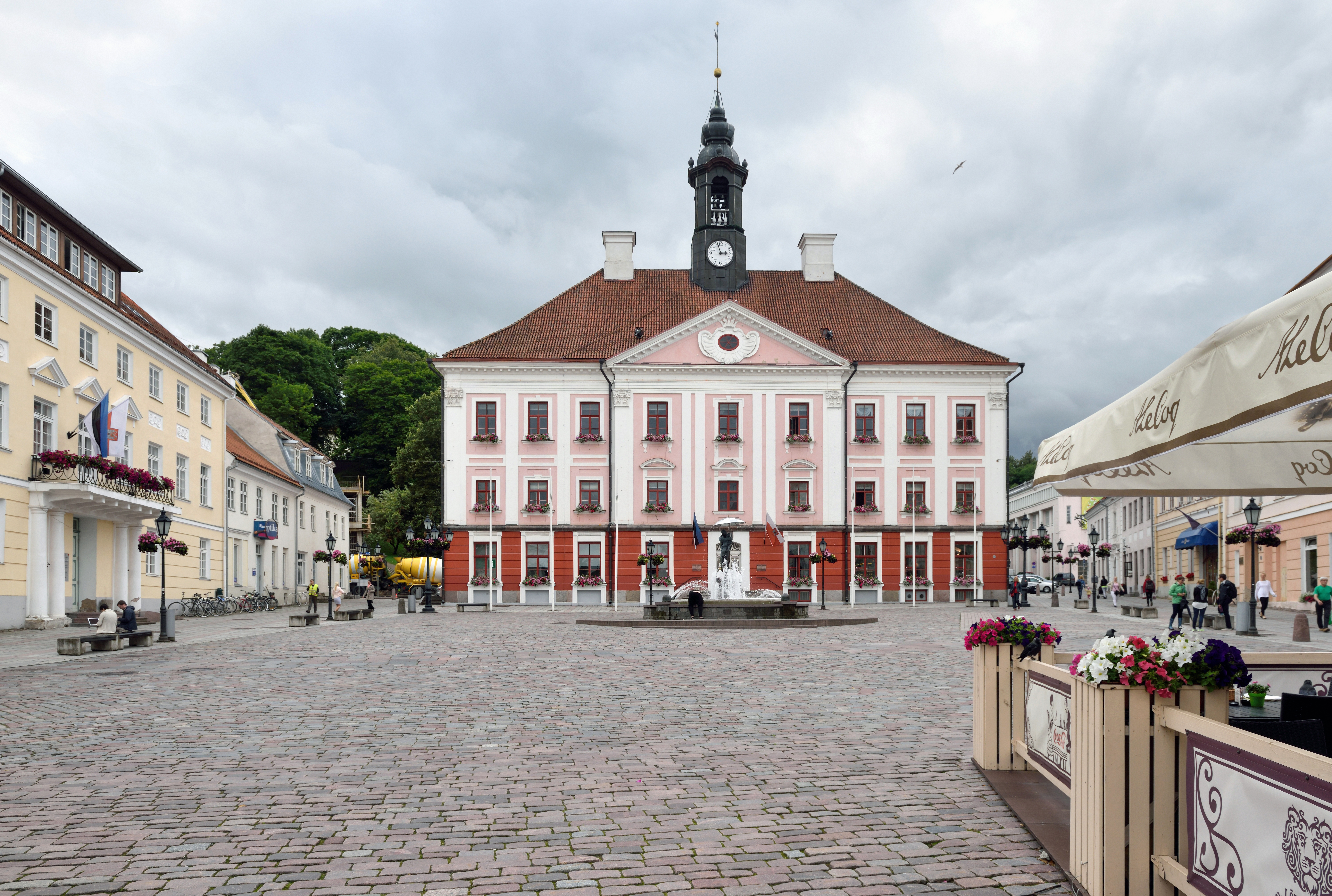 Town Hall of Tartu on Town Hall's square in Tartu, Estonia.